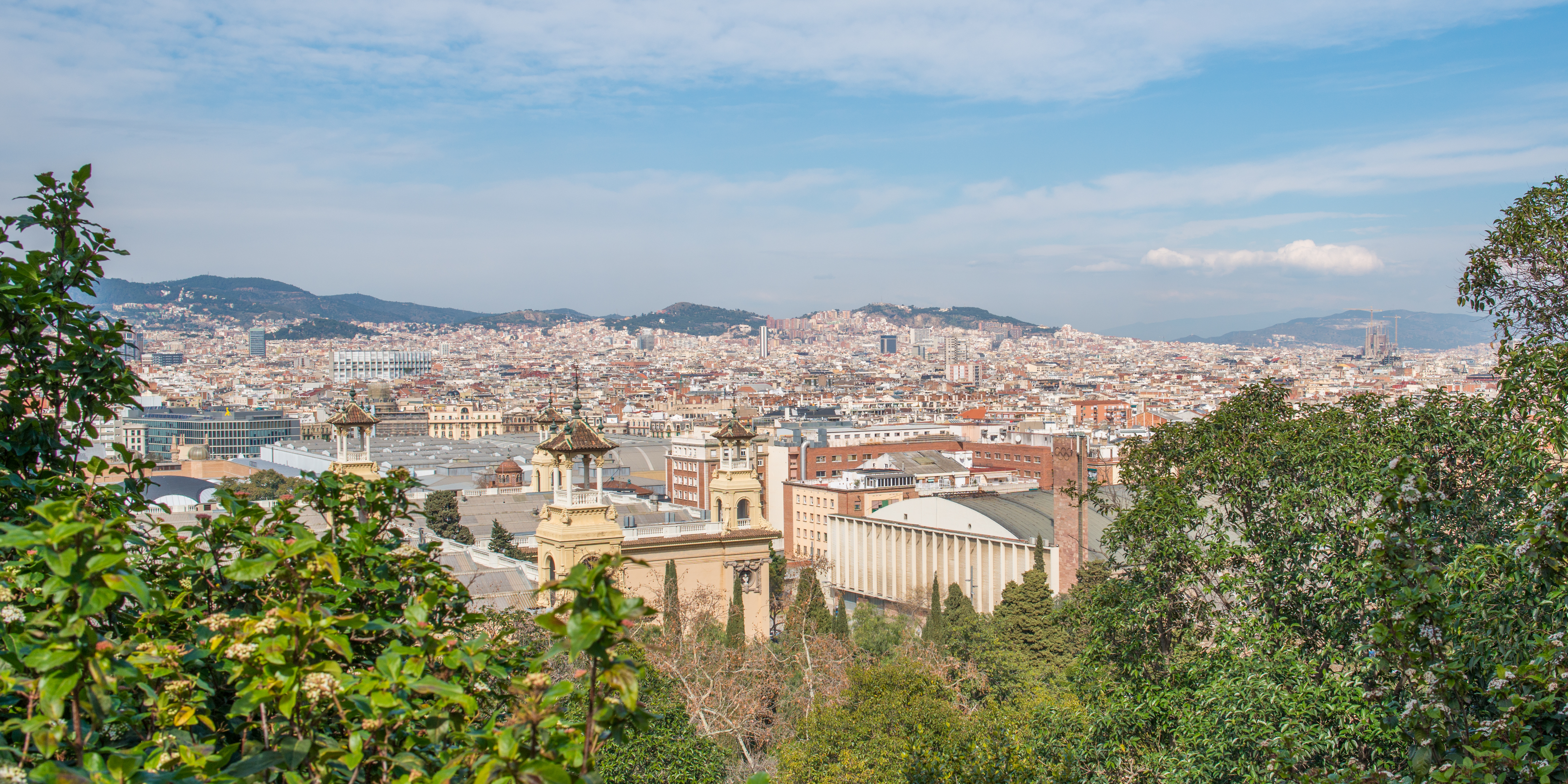 Barcelona Spain February 2013